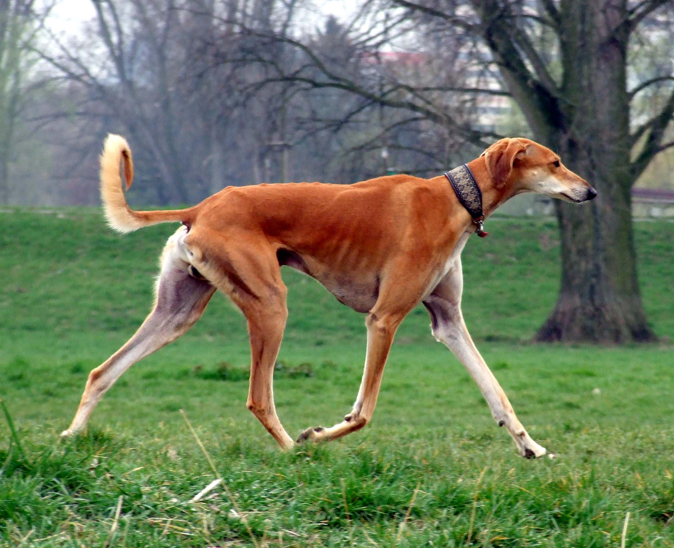 Five year old red smooth saluki male.